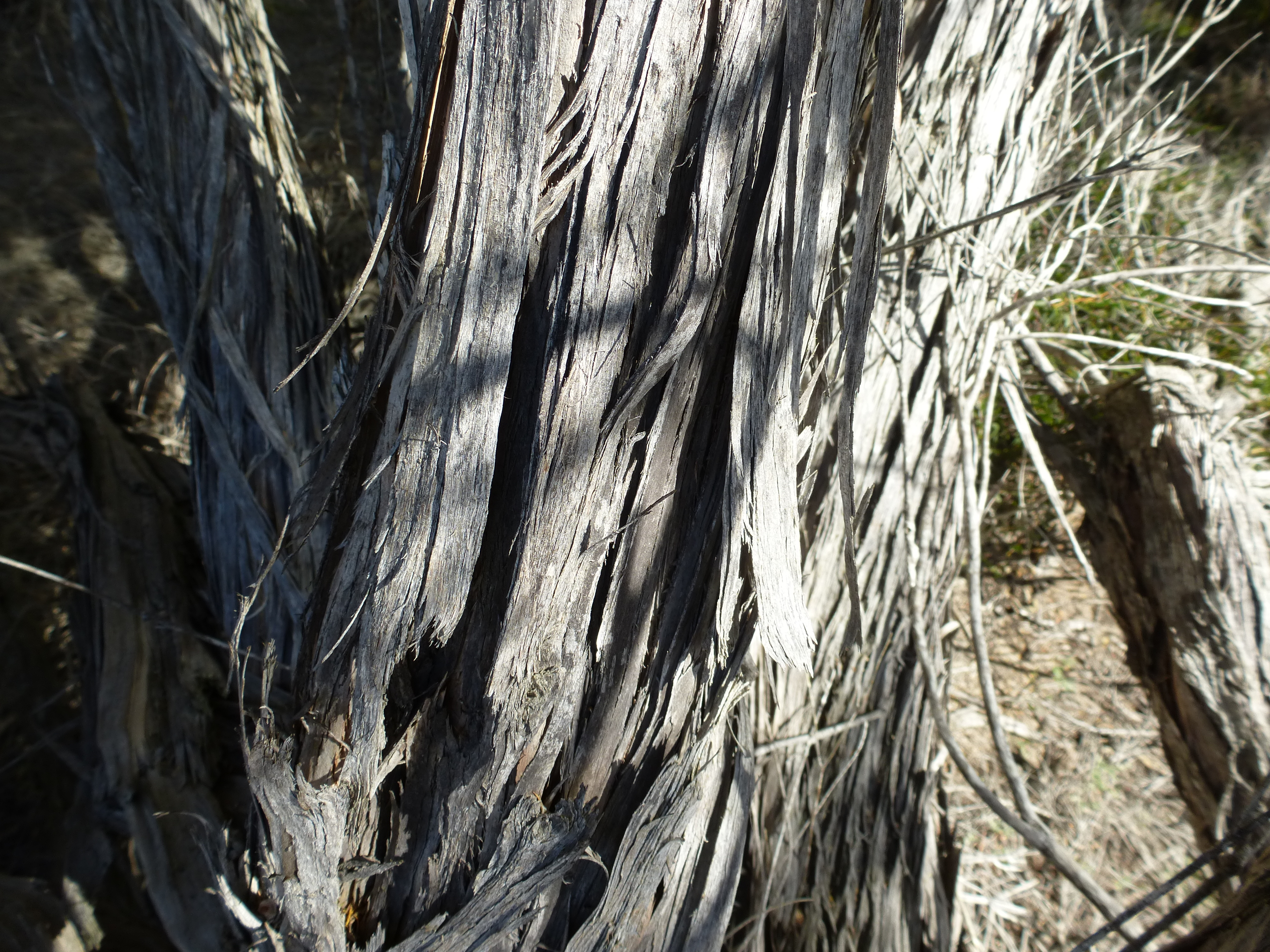 Melaleuca eleuterostachya 53 km W of Esperance